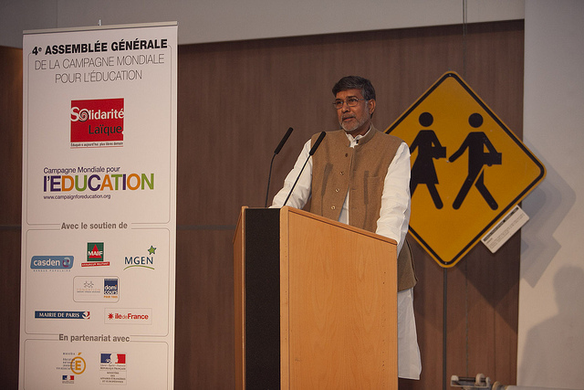 Kailash Satyarthi